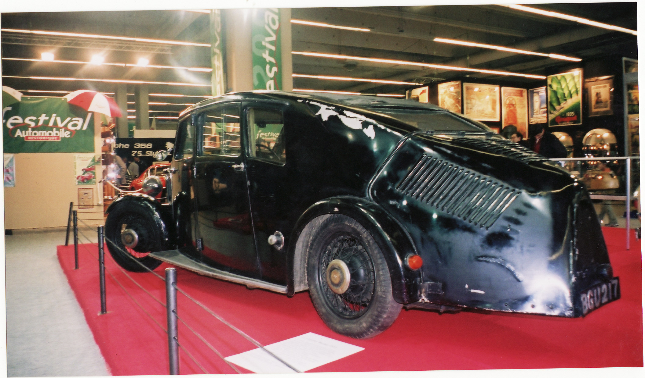 Massive vehicle - only 12 built in UK. Said to have had tricky handling and stability, due to wholly overhung rear engine!!Spotted at Retromobile 2005